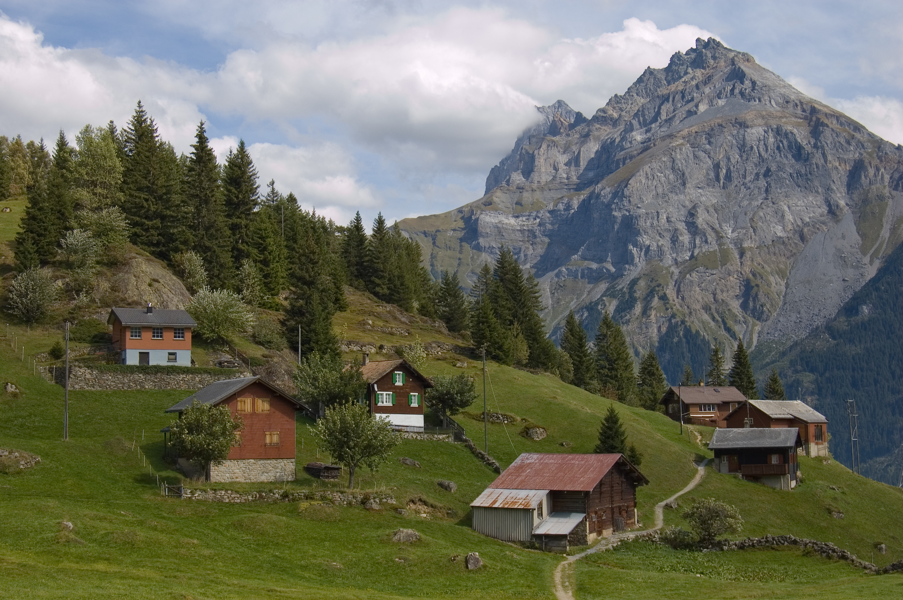 View from Arni to Chli Windgällen (2986m, in front) and the Groß Windgällen (3188m, behind) in the Canton of Uri/Switzerland